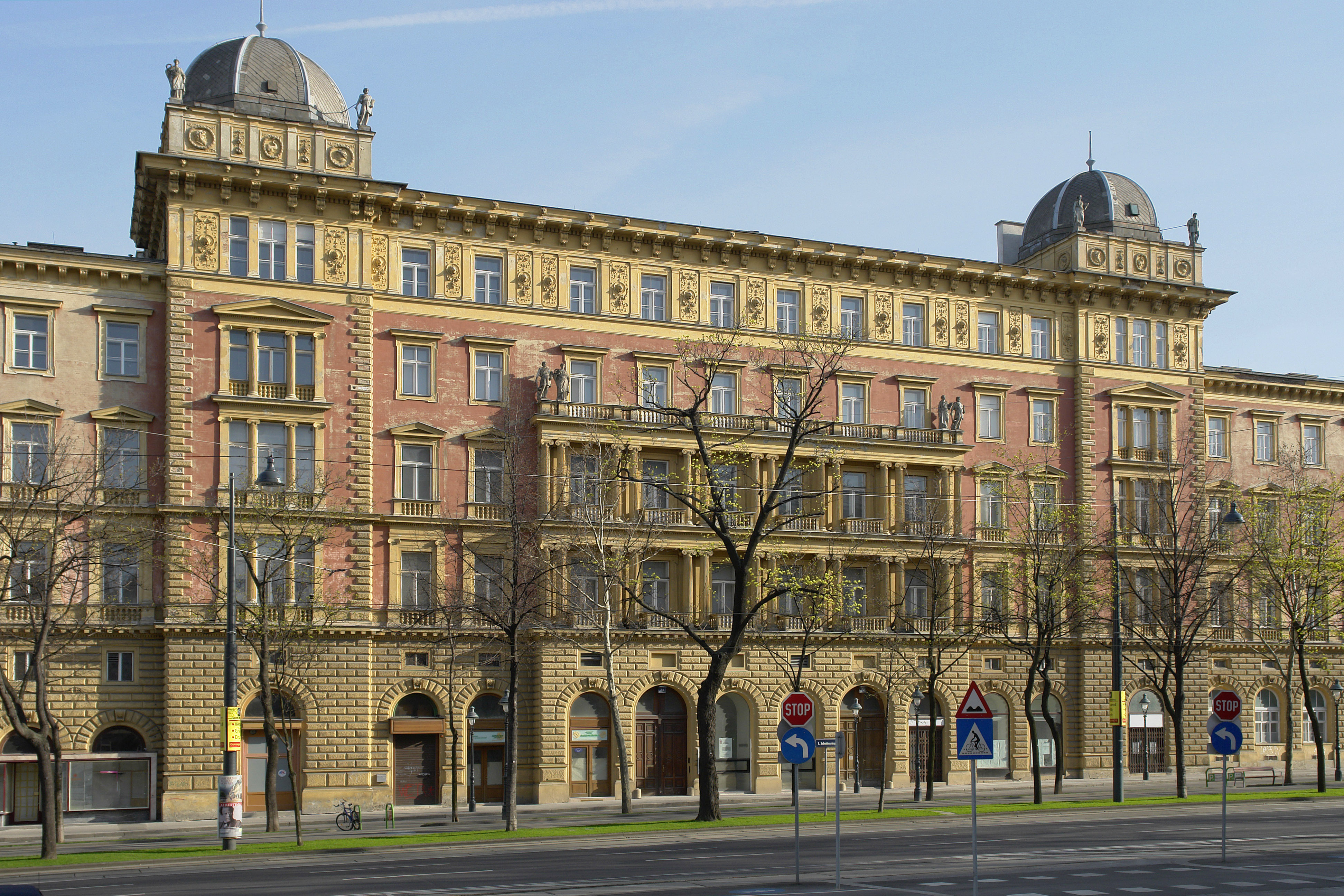 Palace Hansen Vienna Austria 2010